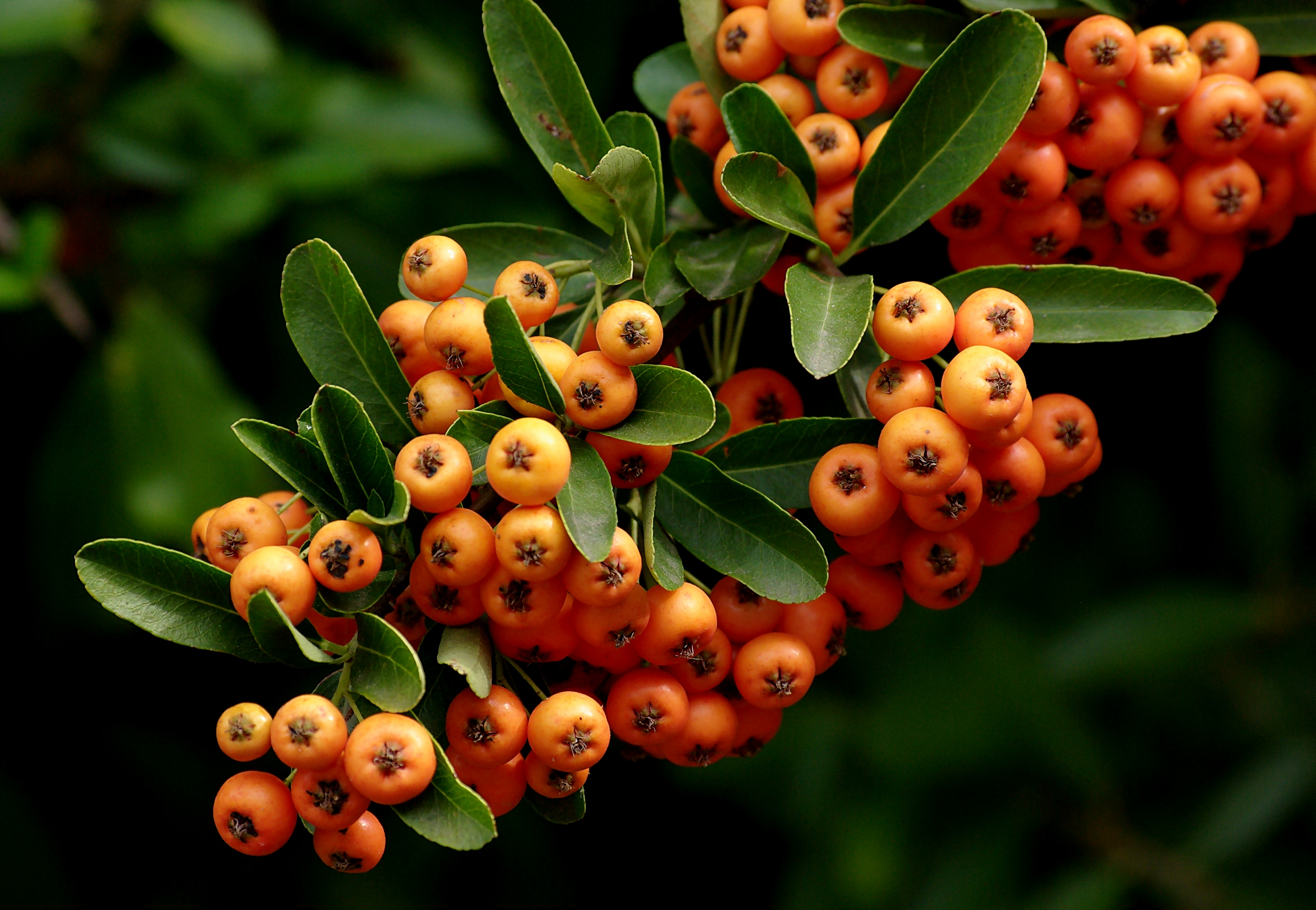 Firethorn (Pyracantha angustifolia), in a garden, France. APG IV Classification: Domain: Eukaryota • (unranked): Archaeplastida • Regnum: Plantae • Cladus: angiosperms • Cladus: eudicots • Cladus: core eudicots • Cladus: superrosids • Cladus: rosids • Cladus: eurosids I • Ordo: Rosales • Familia: Rosaceae • Subfamilia: Spiraeoideae • Tribus: Pyreae • Genus: Pyracantha M.Roem.